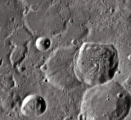 Abenezra lunar crater as seen from Earth with satellite craters labeled